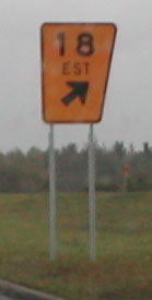 An exit gore sign on Autoroute 35 south in Quebec. Taken September 15, 2002 by User:SPUI.